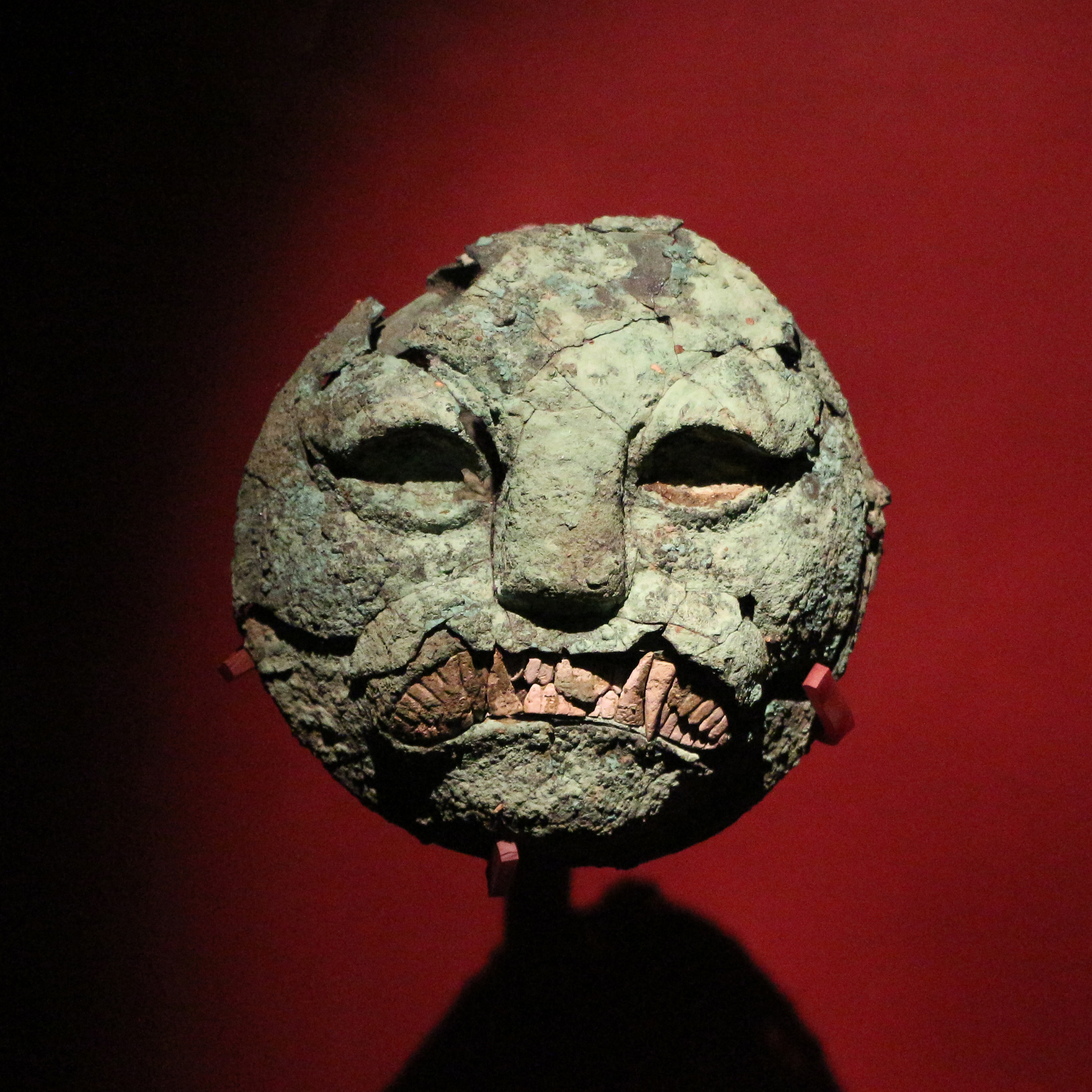 Funerary mask in the Museo de Sitio Huaca Rajada - Sipán, Peru